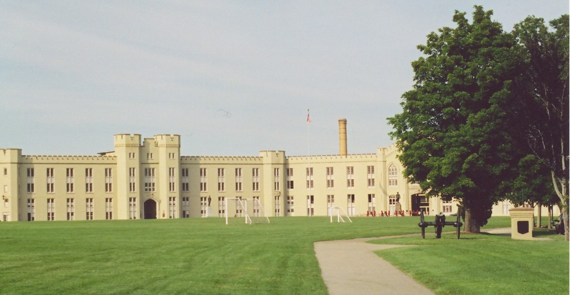 Virginia Military Institute, Lexington, Virginia.